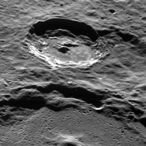 Oblique view of Kyōsai crater on Mercury. MESSENGER Narrow Angle Camera image. Approximate north is to the right. Width is about 66 km in foreground at bottom. Emission Angle: 53.8 Incidence Angle: 74.7 Latitude: 25.2 Longitude: 5.6 Phase Angle: 127.7